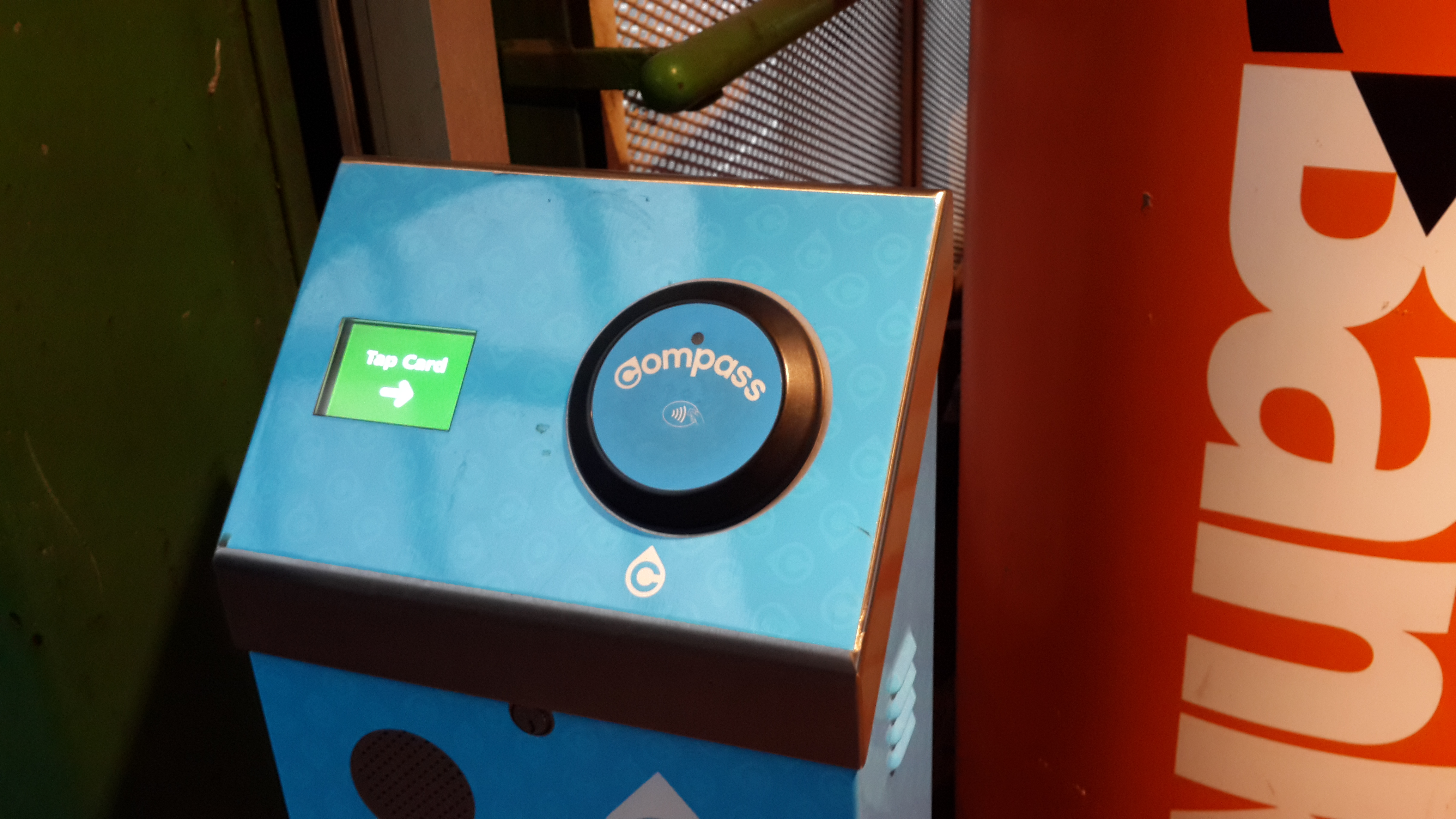 The Compass Flapping Gate is at Metrotown Station